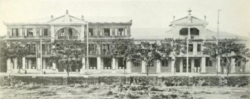 Centro Escolar de Señoritas was at the time the largest women's educational institution in the country and would become Centro Escolar University in 1932